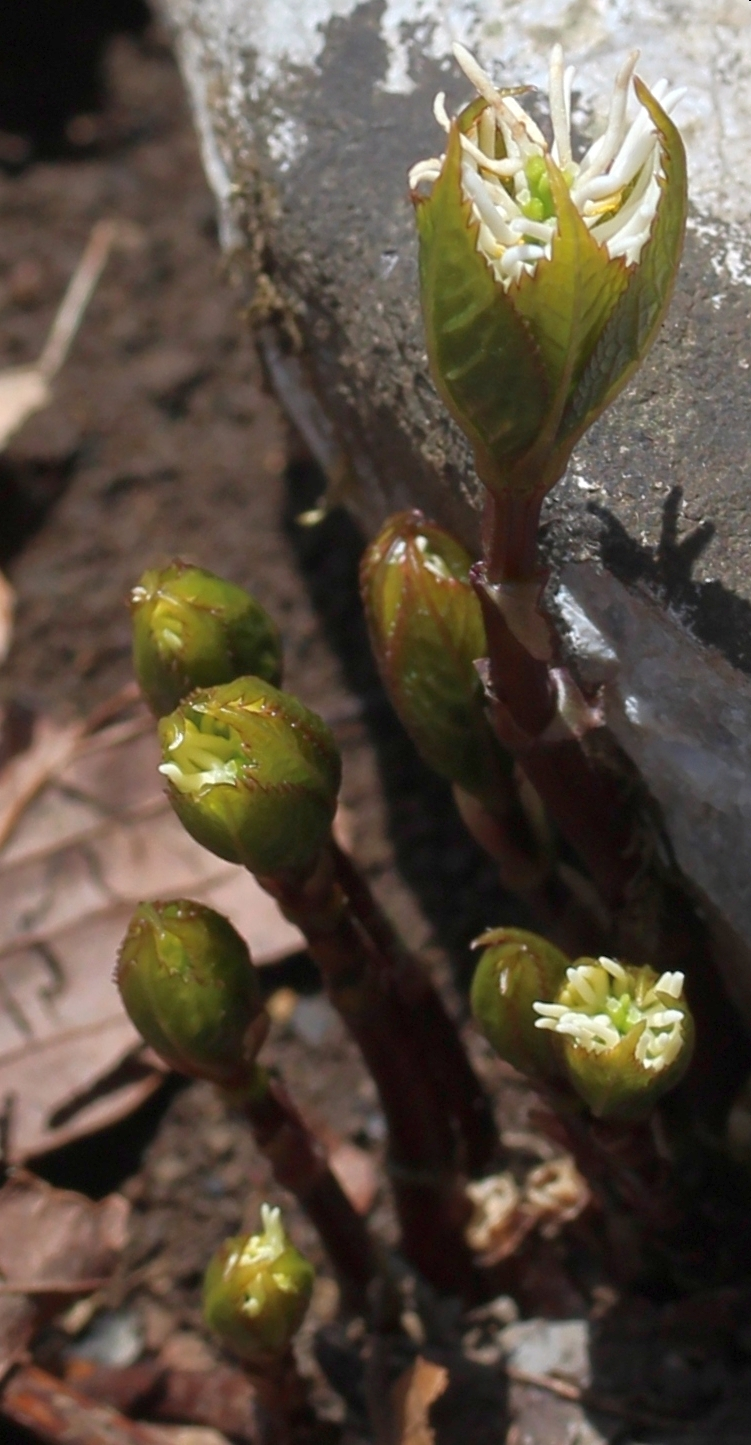 Chloranthus japonicus in Mount Funabuse, Yamagata, Gifu prefecture, Japan.